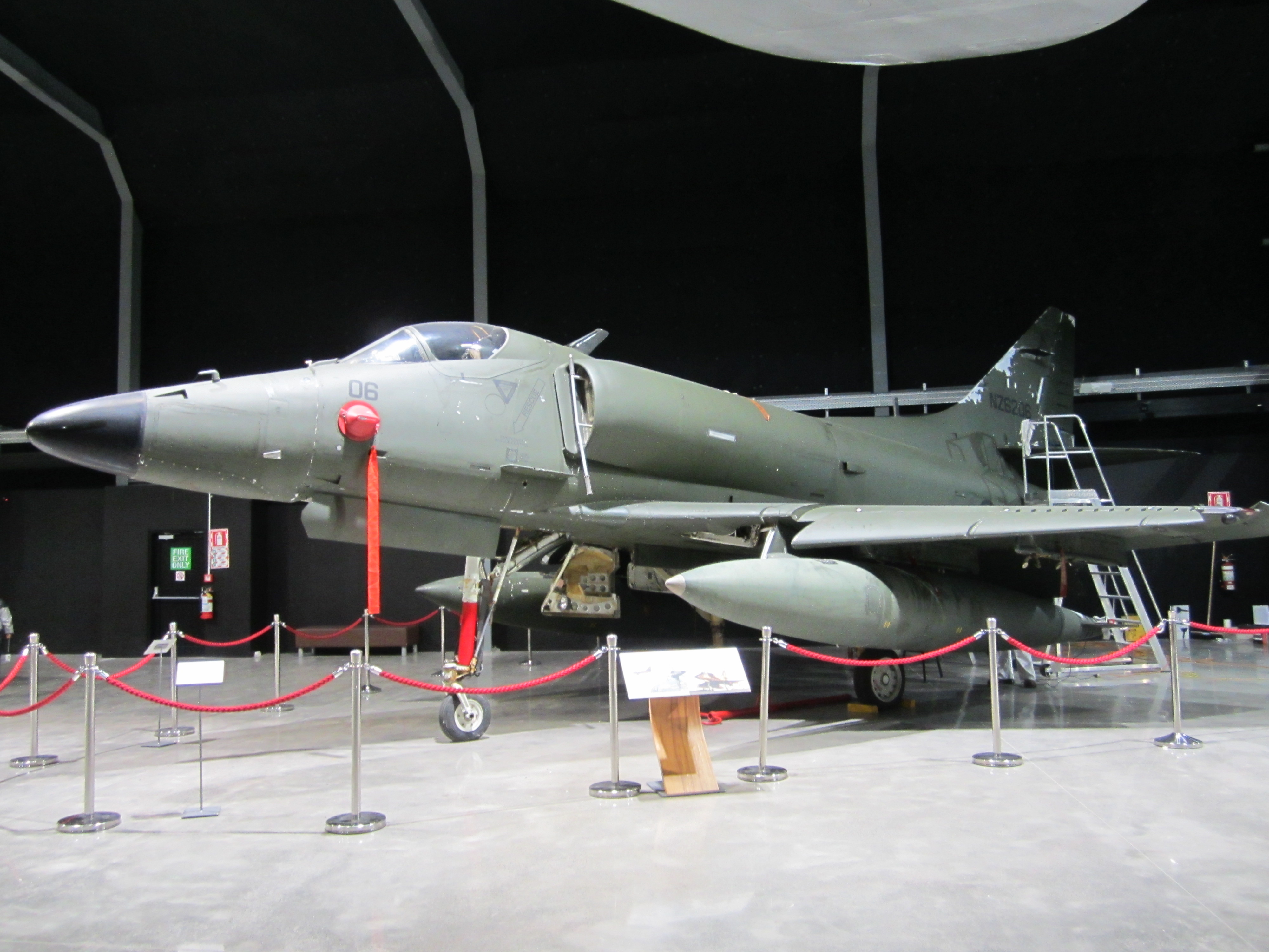 An ex-Royal New Zealand Air Force A4K Skyhawk on display at the Sir Keith Park Memorial Aviation Collection at MOTAT in Auckland